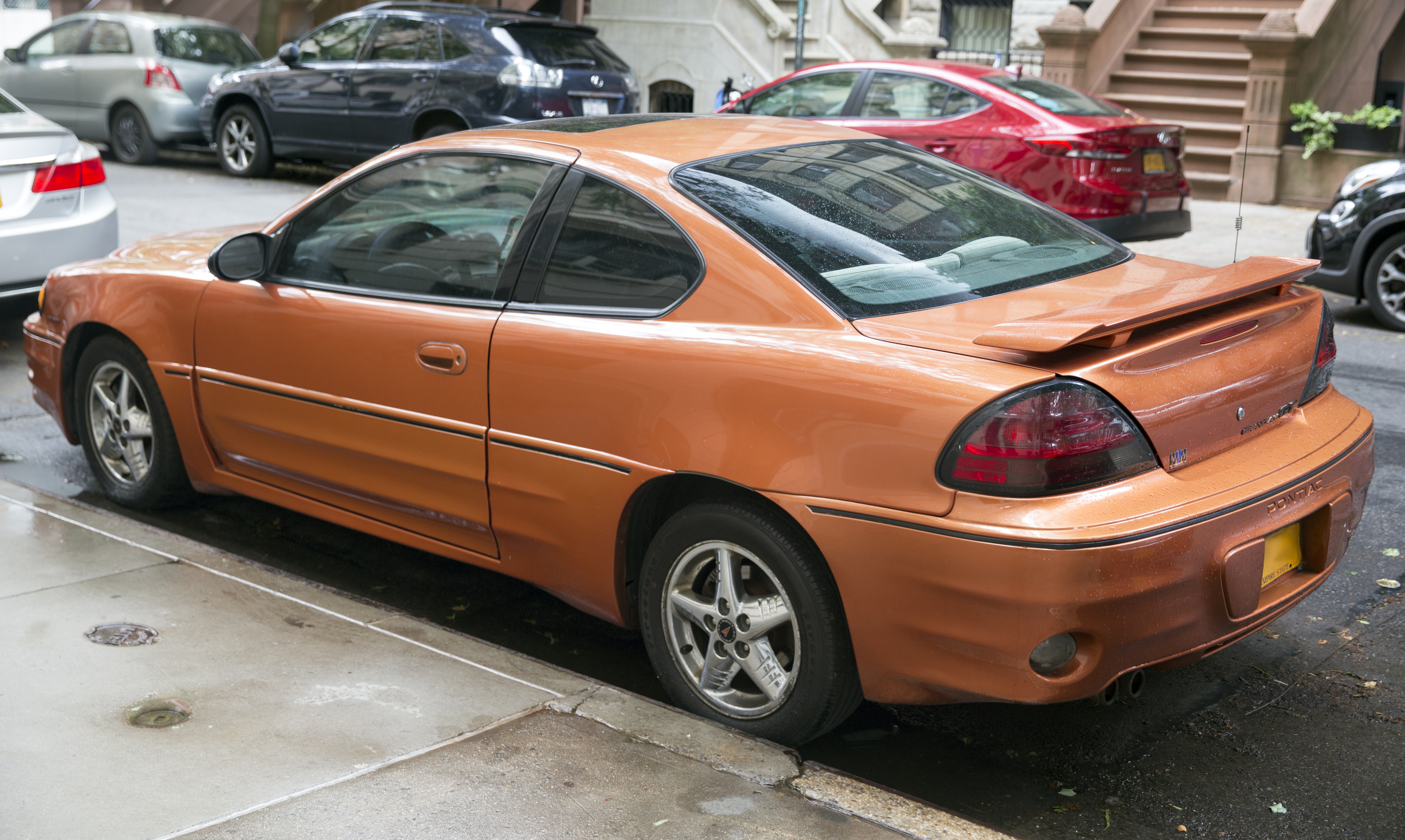 2004 Pontiac Grand Am GT coupe; 3.4-litre Ram Air V6 engine (LA1), built in Lansing, MI.